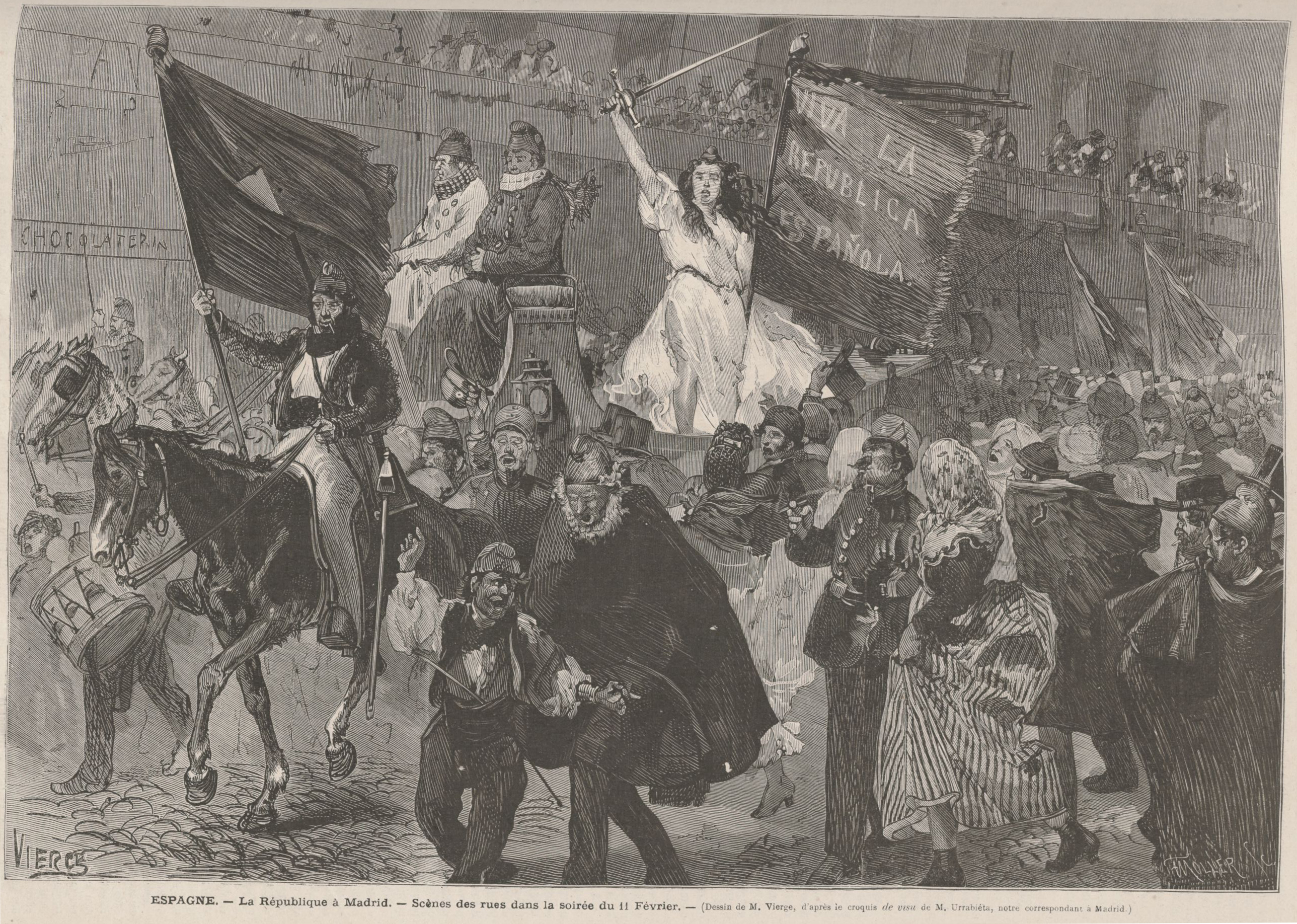 Spain — The Republic in Madrid — Scenes in the streets on the evening of 11 February — (Drawing by Mr. Vierge, after a sketch from life by Mr. Urrabieta, our correspondent in Madrid.)